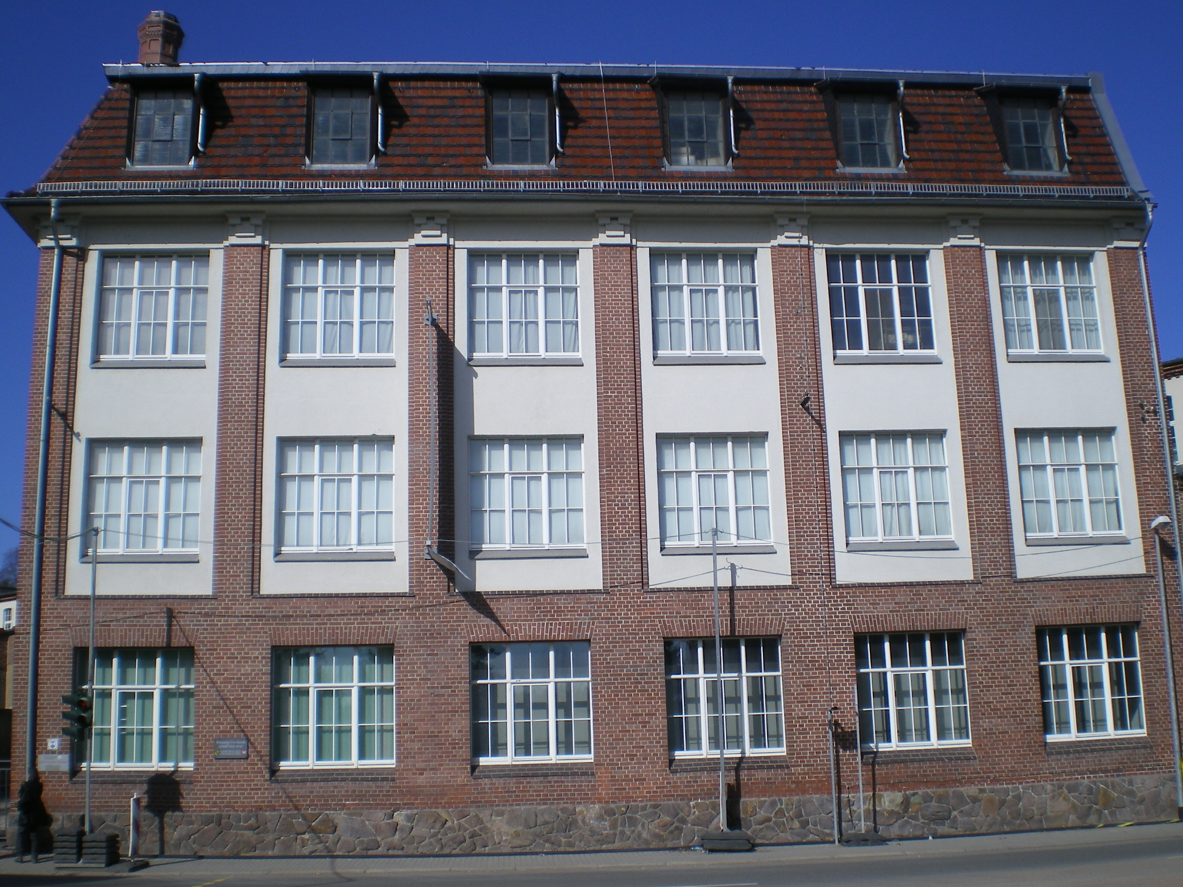 Textile museum in Crimmitschau near Zwickau/Saxony